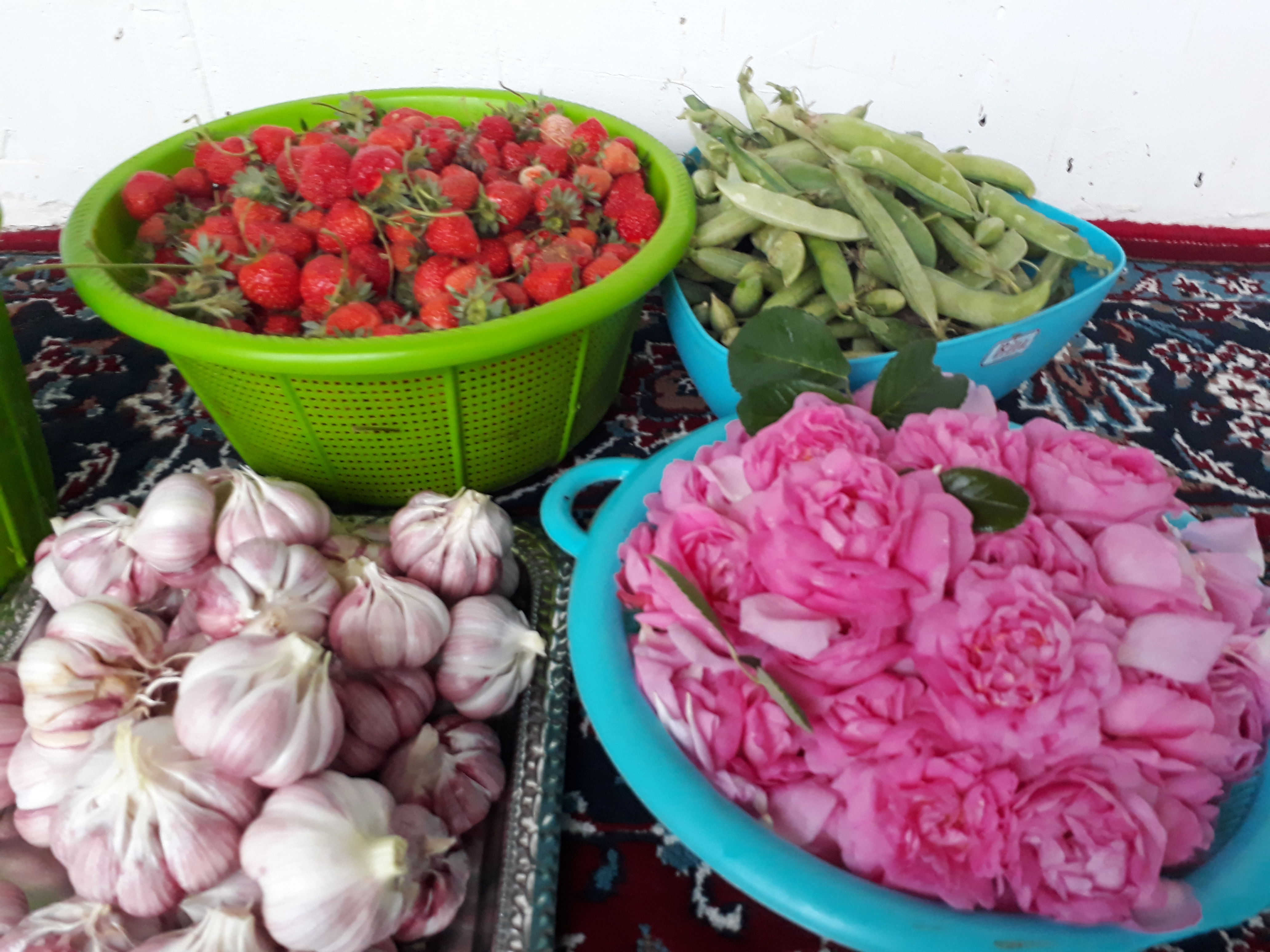 Agricultural products in shirkola